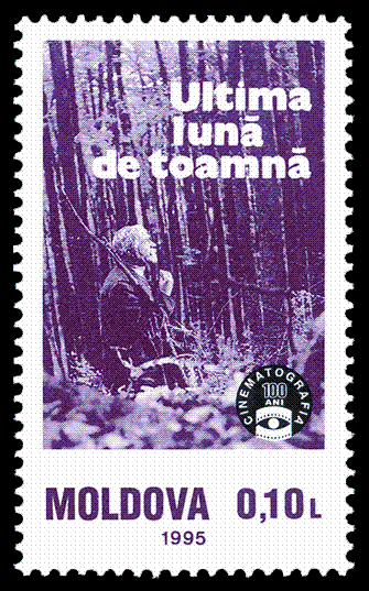 Filmstill "The last autumn month" (1965). Scriptwriter Ion Druţă, director - V. Derbeniov. "Le Grand Prix" of the Canne Festival (1967). Stamp of Moldova